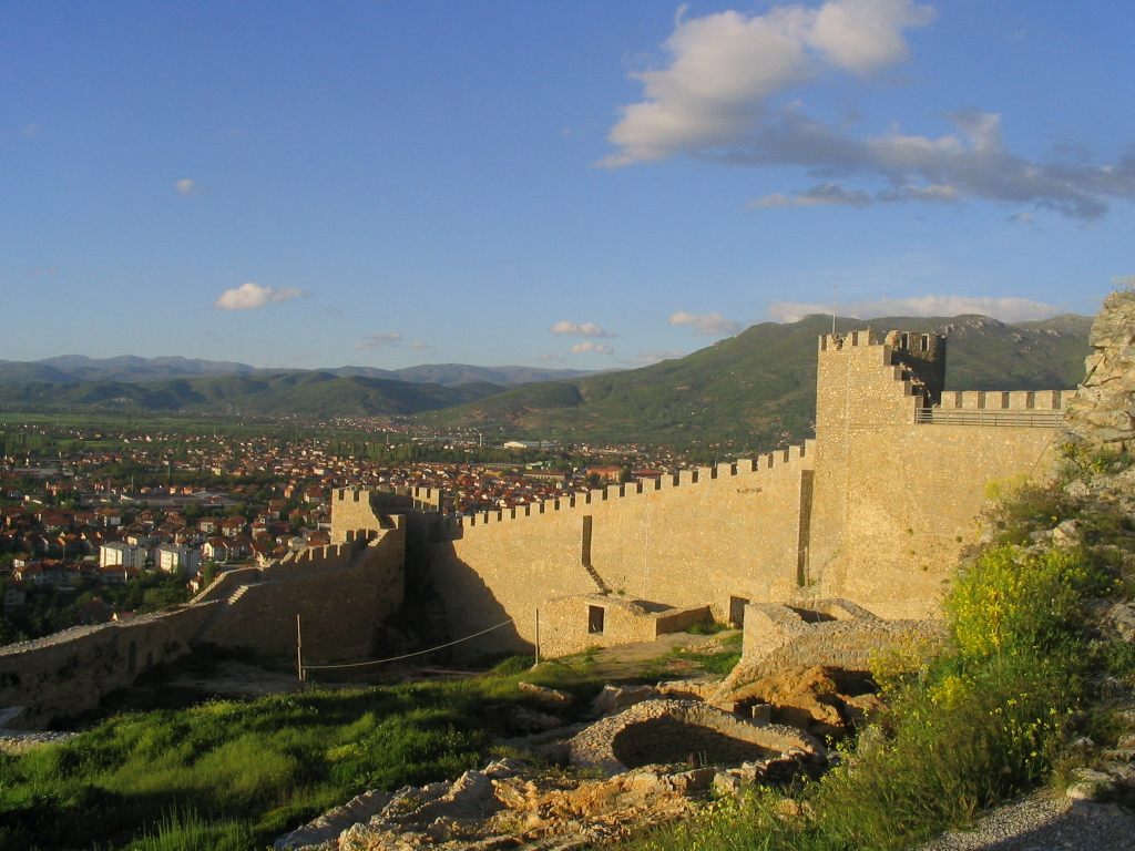 Ohrid, a very beautiful town situated on the Ohrid lake. Ohrid is on the UNESCO list. Photo by Biserka Mitrovic.